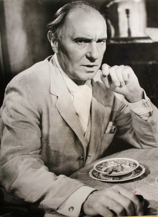 Promotional image of Ralph Richardson in Long Day's Journey into Night